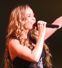 Lisa Lavie singing with right hand holding microphone and left arm upraised.